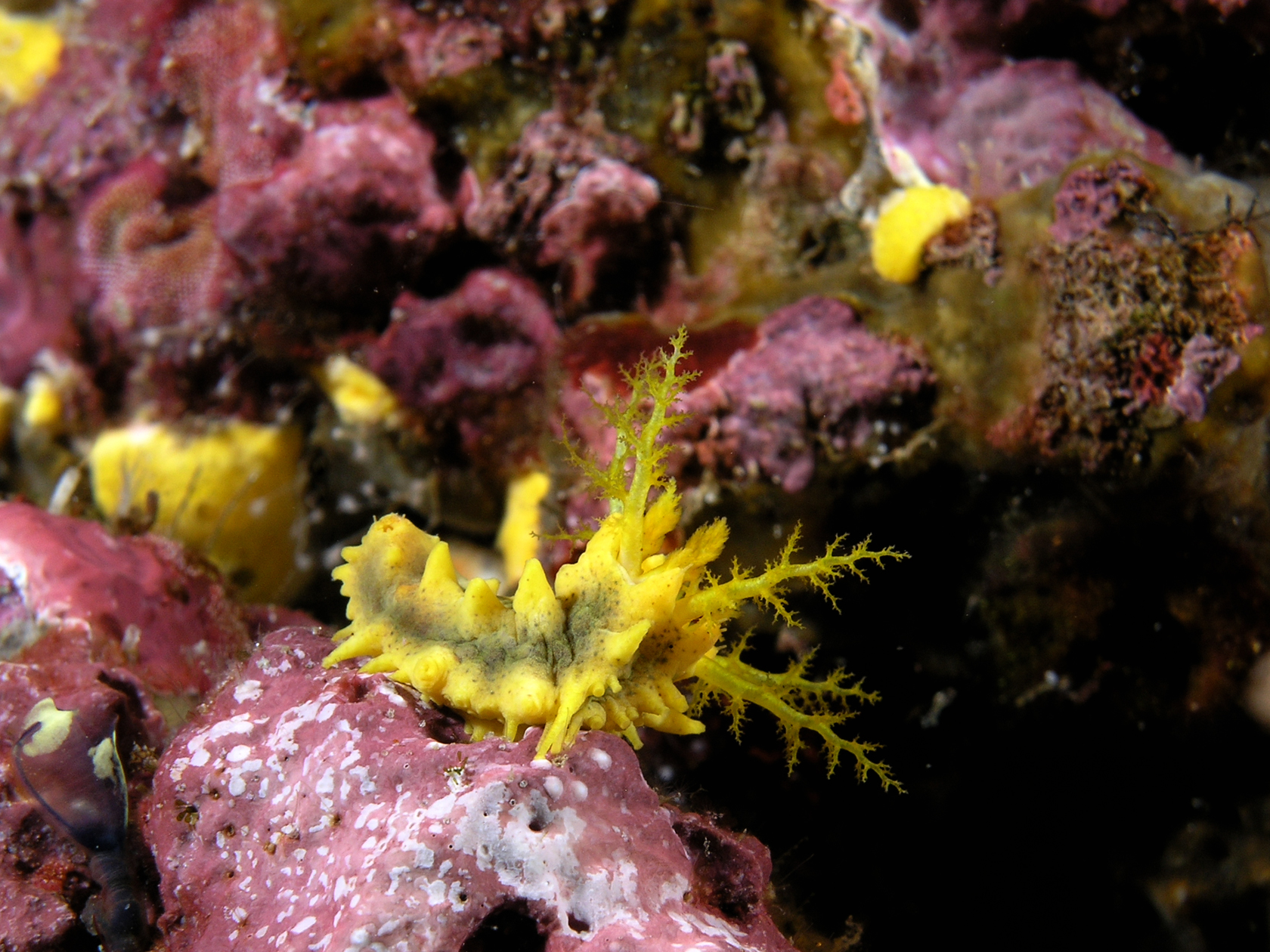 Small yellow sea cucumber filter feeding for plankton and suspended particles in the water from Komodo National Park.